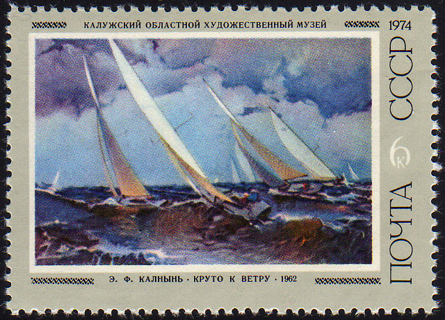 Postage stamp issued by the Soviet Union 1974 depicting painting by Latvian painter Eduards Kalniņš.